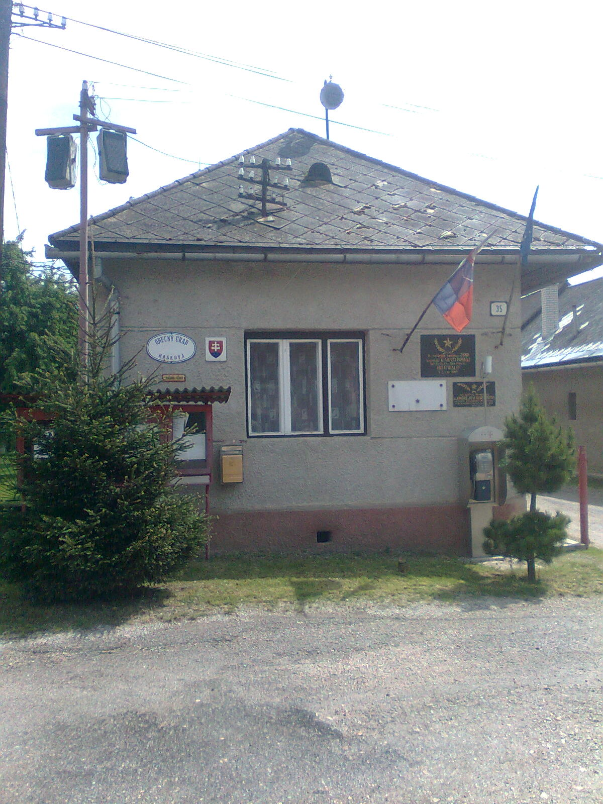 Slovakia vilage Hankova, municipal ofice